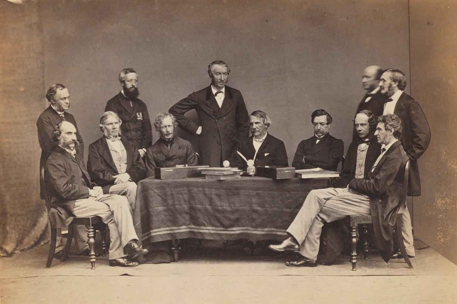 Viceroy's Supreme/Executive Council and Secretaries, Simla, 1864, by Bourne & Shepherd, albumen print, circa 1864. Persons standing from left to right: Unidentified Henry Wylie Norman Henry Marion Durand Edward Clive Bayley John Strachey Persons seating from left to right: Unidentified Charles Trevelyan Hugh Rose, then Commander in Chief of India John Lawrence, then Governer General and Viceroy of India Robert Napier Henry Maine Mr. Grey Information retrieved from Brothers in Raj: The lives of Henry and John Lawrence by Harold Lee (2002), ISBN:019579415X